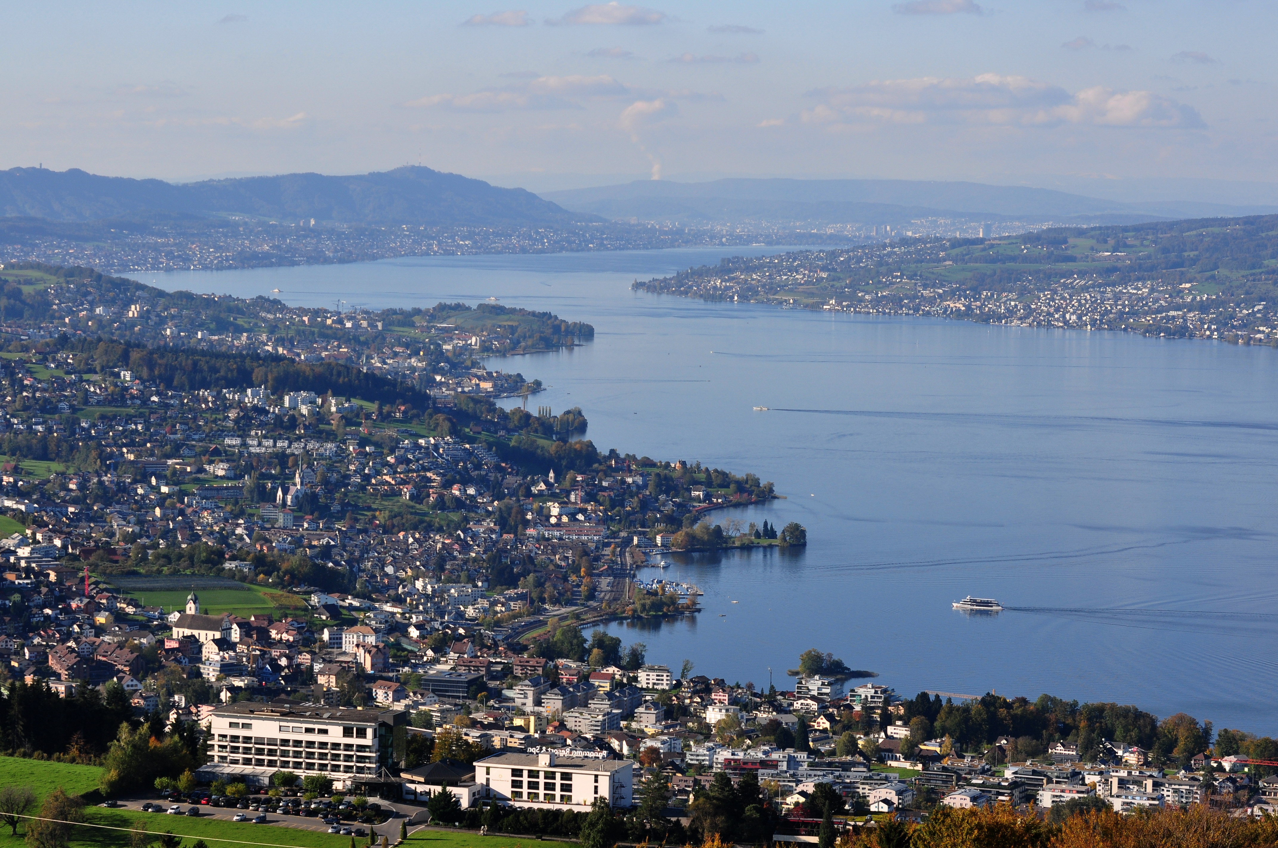 View from the Etzel mountain in Switzerland towards Etzel Kulm – focus on Richterswil : (from the left side) Richterswil and Horgen on Zürichsee lakeshore, Au peninsula, Albis chain with Felsenegg and Uetliberg, Zürich in the far background, Pfannenstiel (partially) to the right. Zürichsee-Schiffahrtsgesellschaft (ZSG) MS Säntis towards Rapperswil docking at Richterswil harbour, ZSG MS Panta Rhei is sailing towards Richterswil.